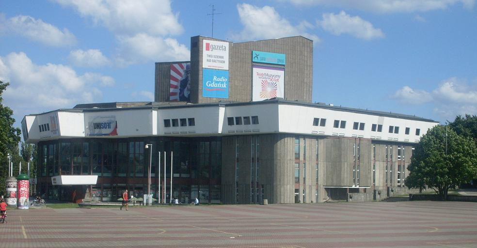 Baduszkowa's Musical Theatre. Lookout from Grunwald Square in Gdynia.